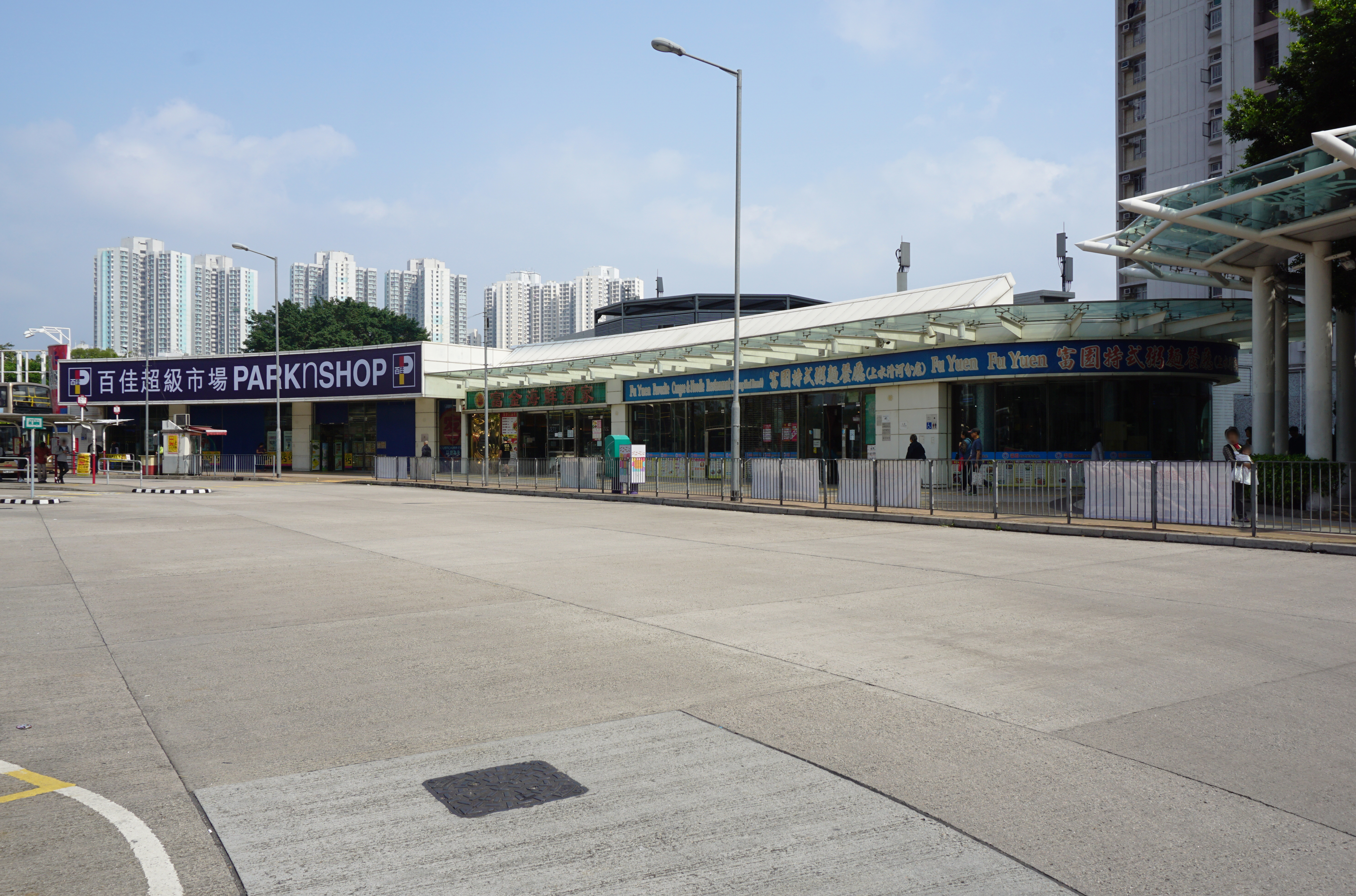 Ching Ho Estate Shopping Centre in Sheung Shui, Hong Kong.